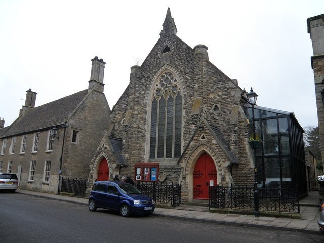 The Stahl Theatre, Oundle An Oundle School facility.